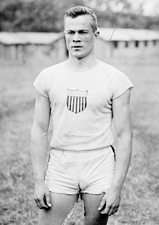 Morris Kirksey